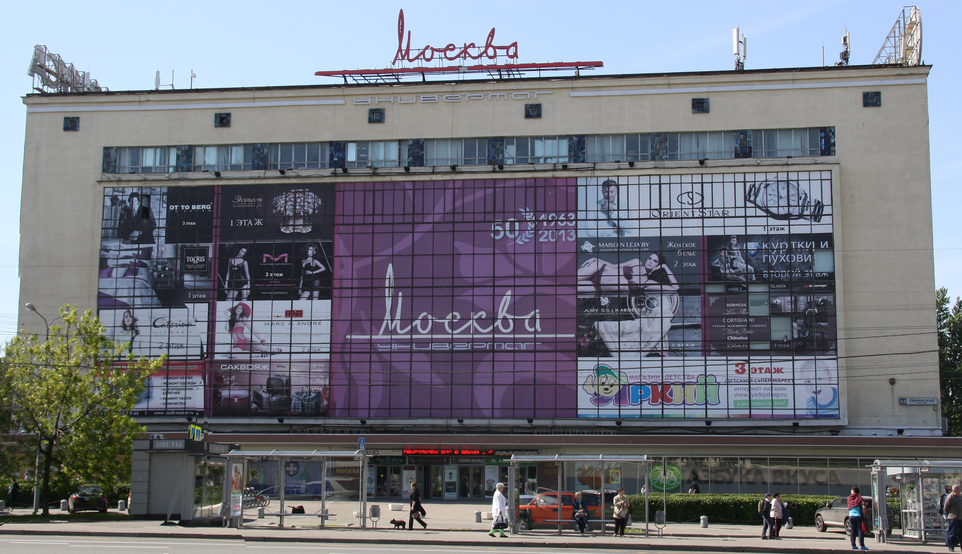 Ленинский проспект